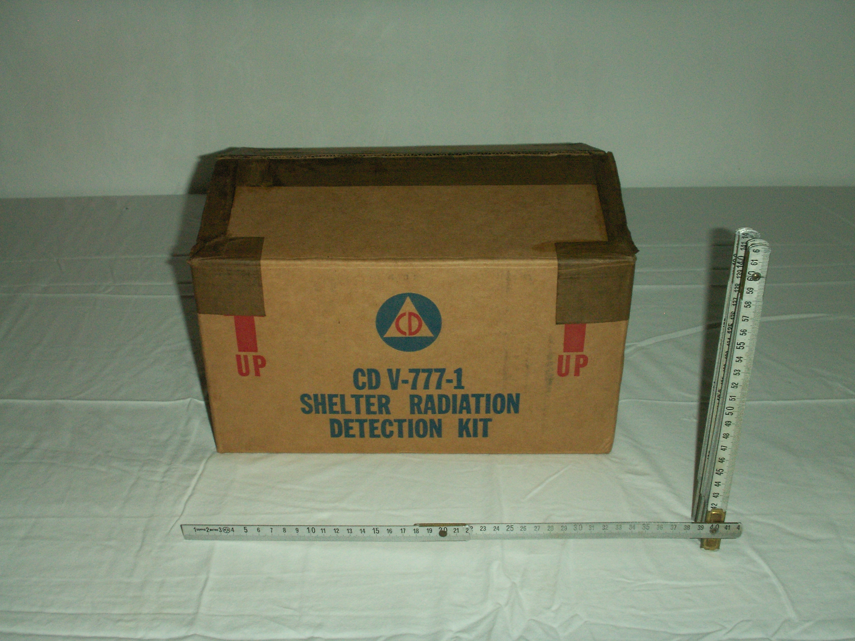 Victoreen Civil Defence V-777-1 shelter radiation detection kit front